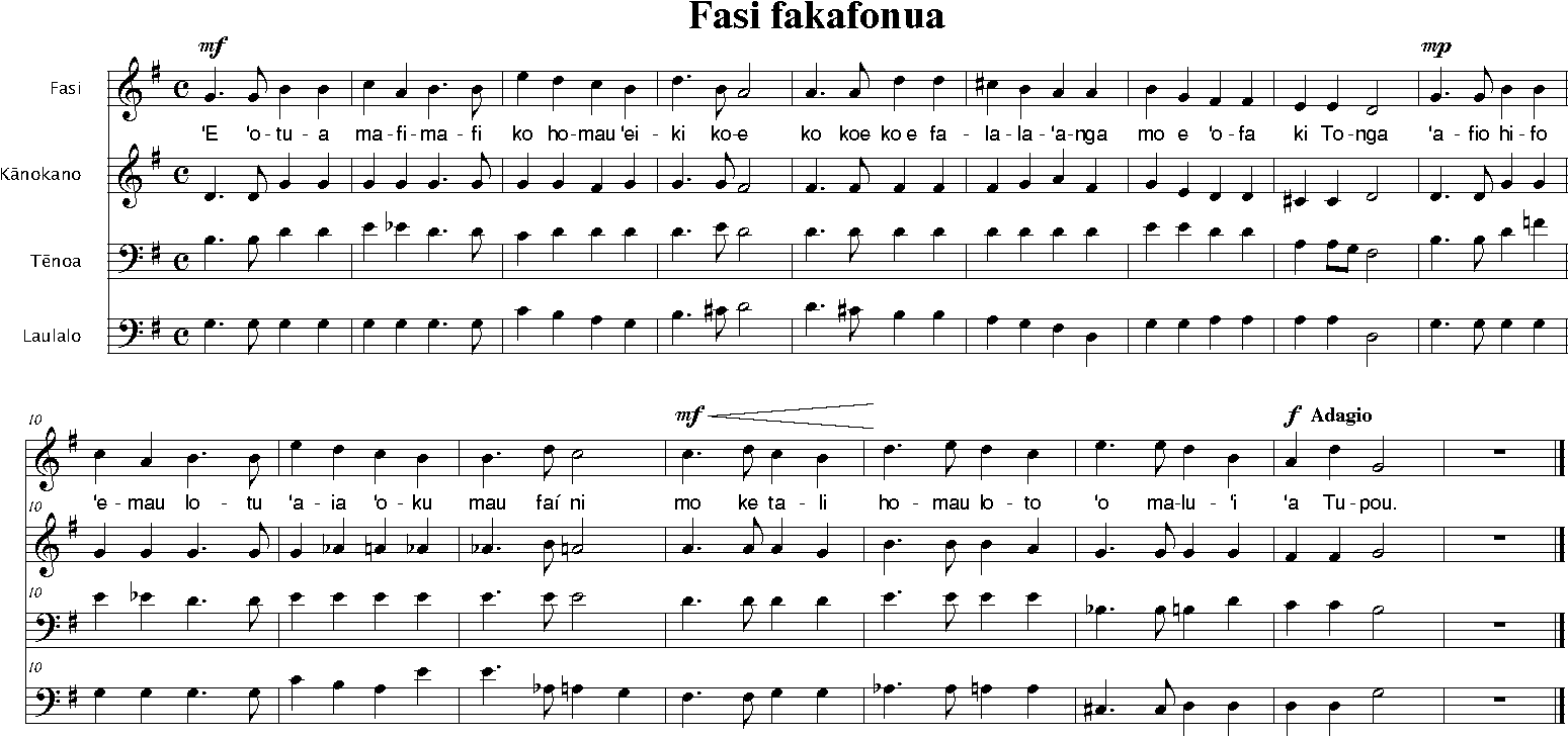 Tonga national anthem in international notation